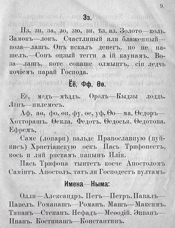 Page from the first Skolt Sami primer, written by Konstantin Ščekoldin (1895).